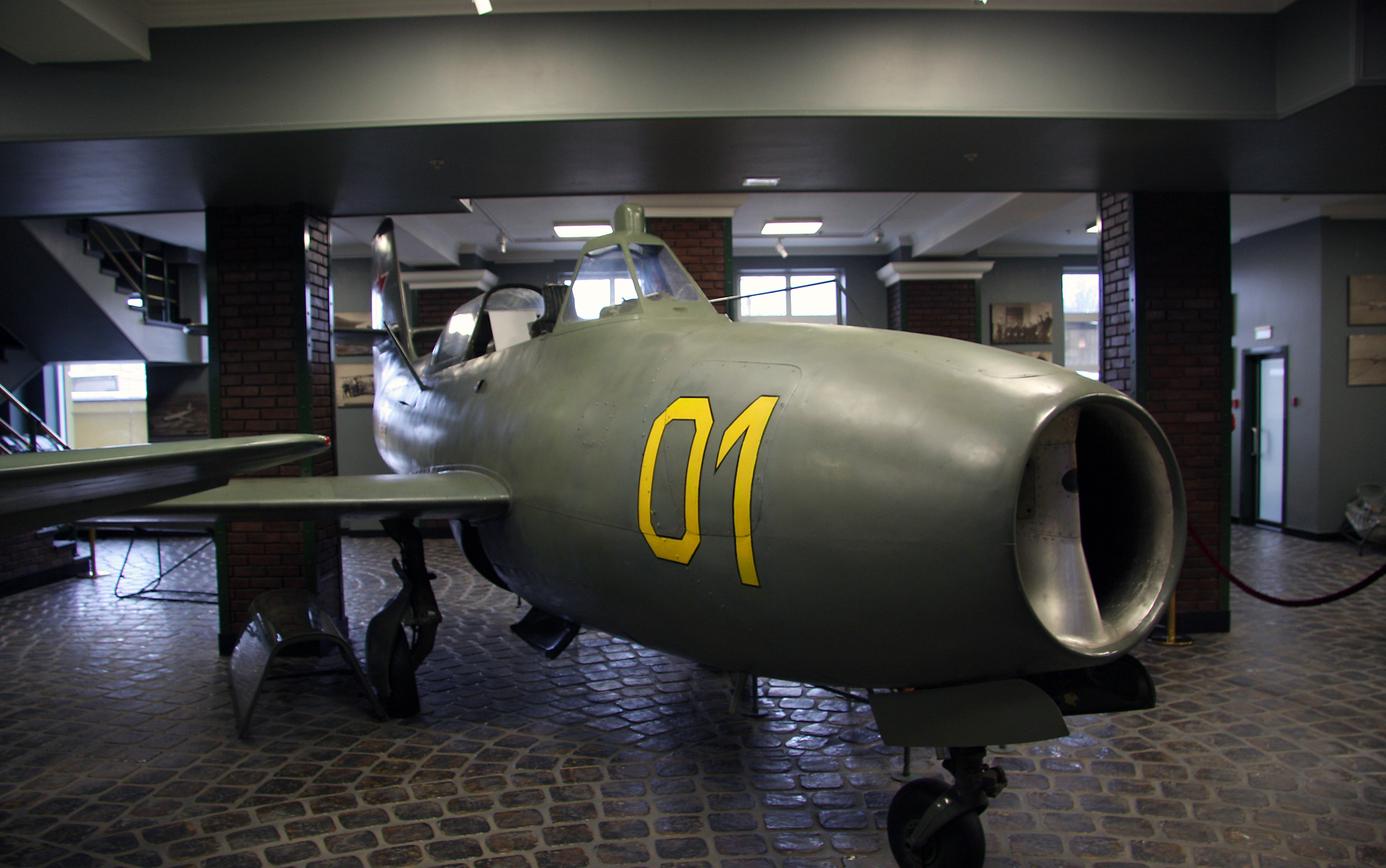 Yakovlev Yak-23UTI trainer aircraft at Museum of technique of Vadim Zadorogny